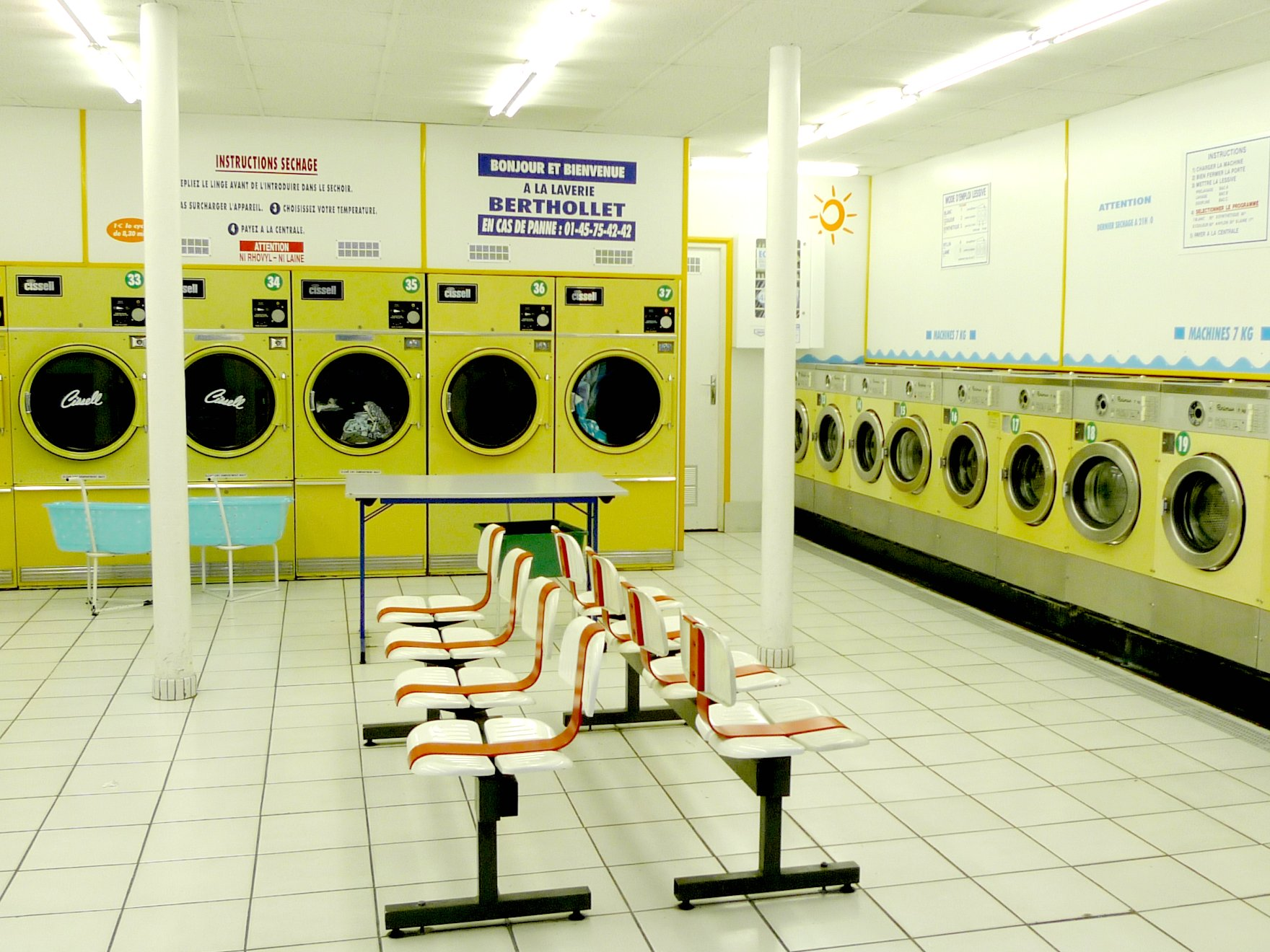 Launderette in Paris. France.